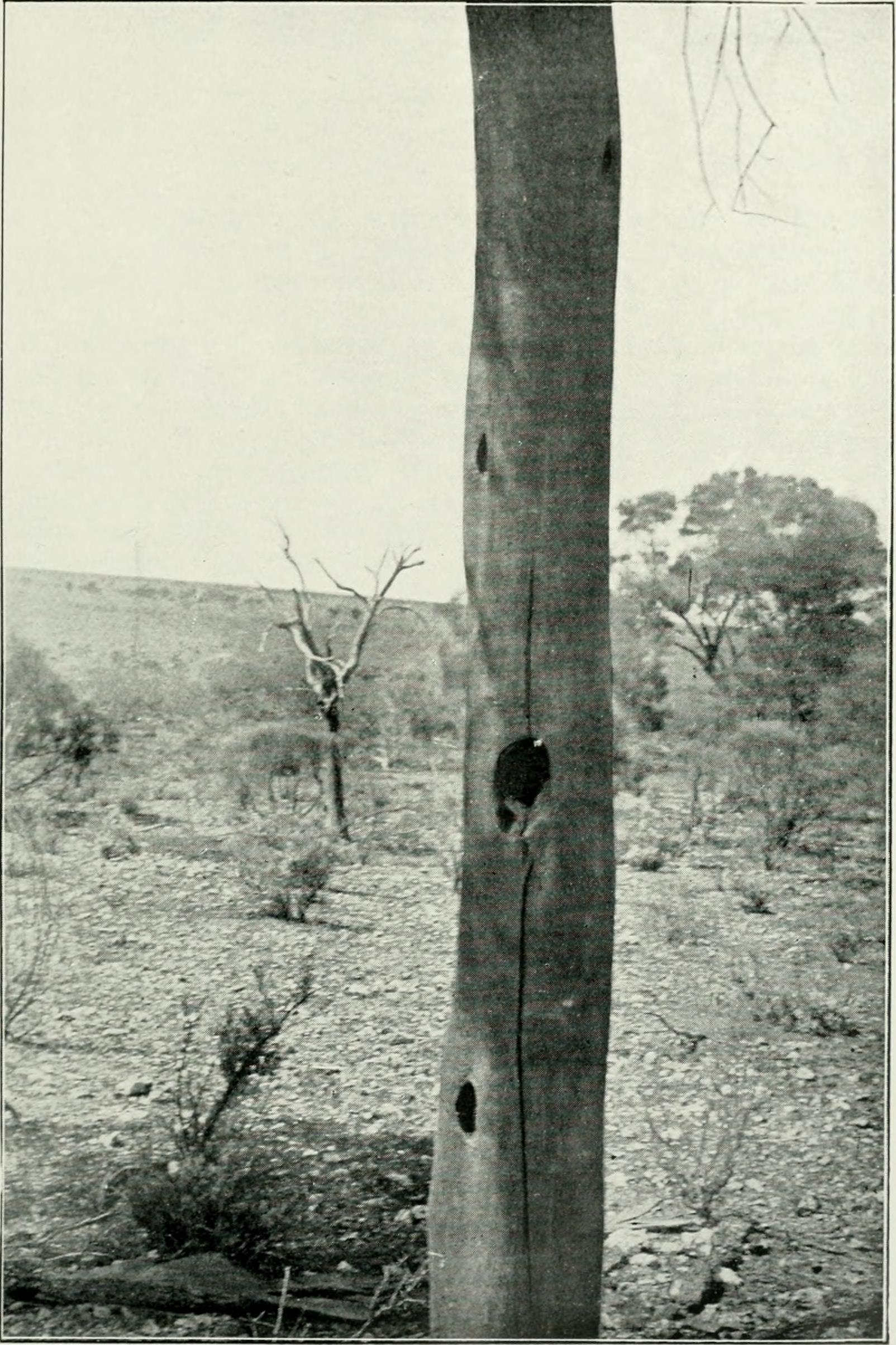 Title: The Emu Identifier: em21aust Year: 1901 (1900s) Authors: Australasian Ornithologists' Union; Royal Australasian Ornithologists' Union Subjects: Birds -- Periodicals; Birds -- Australasia Periodicals Publisher: Melbourne : Australasian Ornithologists' Union Text Appearing Before Image: THE EMU, Vol. XXI. PLATE XXXVIII. Text Appearing After Image: Nesting site of the Naretha Parrot {Psephotiis narethce) in a dead Casuarina ; the young were nearly on the ground inside. Photo, by F. Lawsoii Whitlock. R.A.O.U.